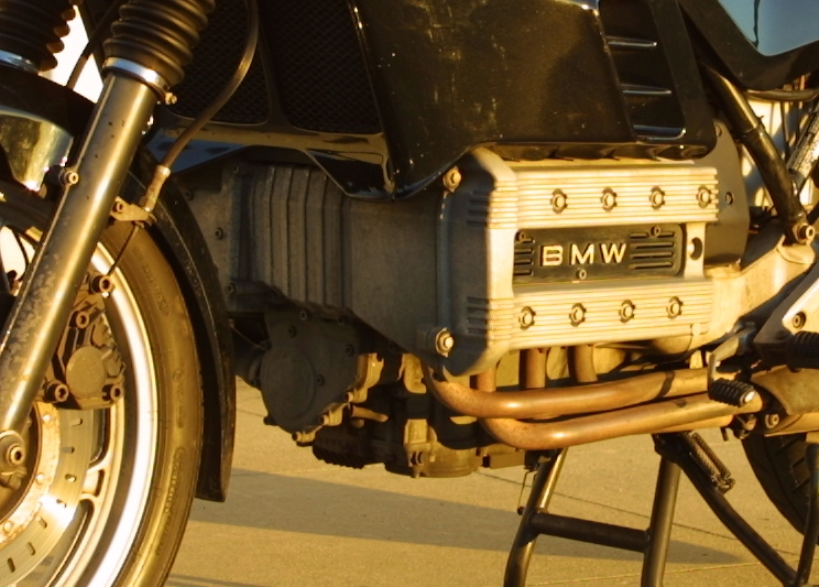 BMW K100 motorcycle engine, in-line, four cylinder, 1000cc. Shown mounted in 1986 K100RS motorcycle.